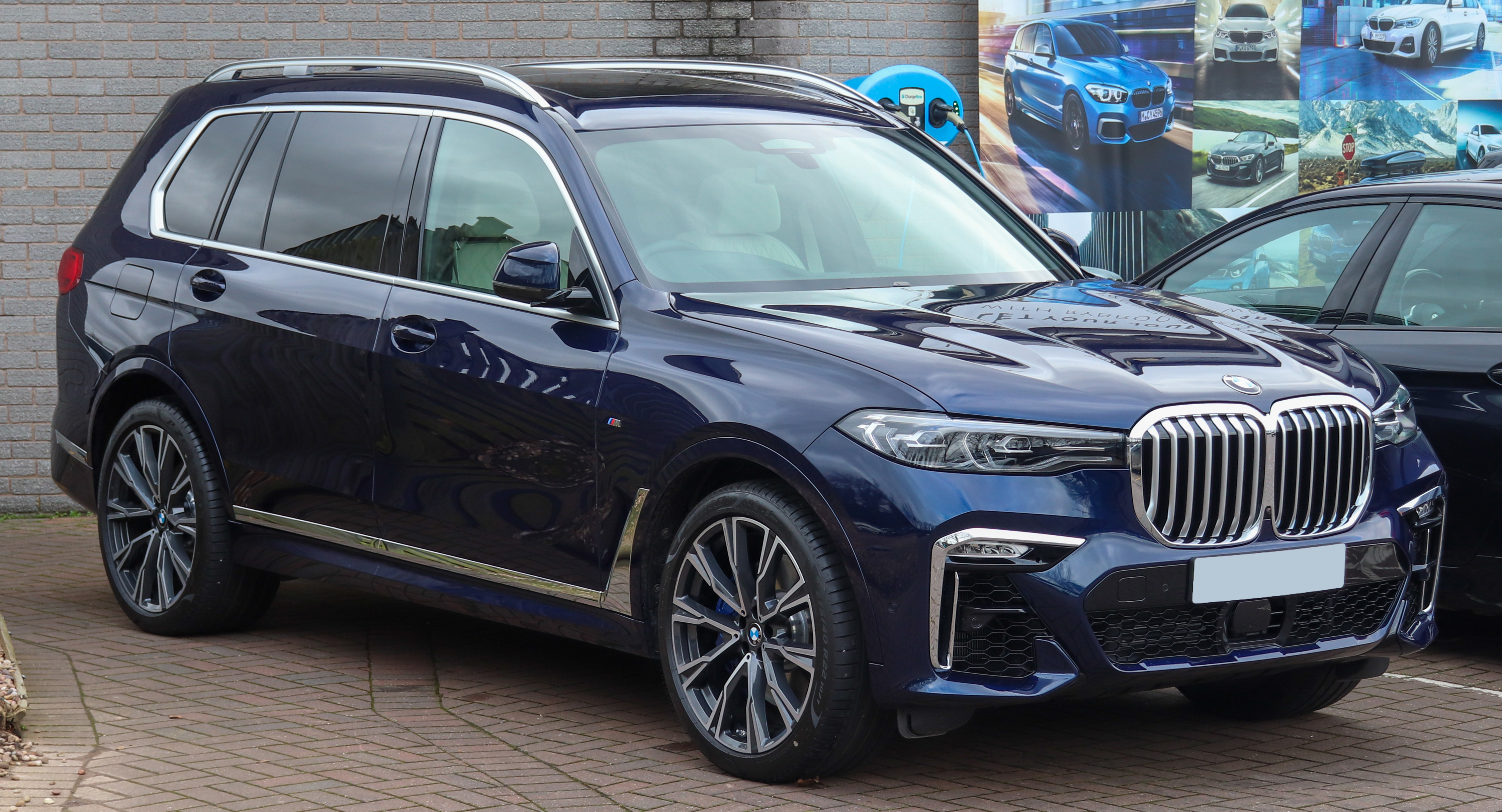 2020 BMW X7 M Sport Taken in Leamington Spa